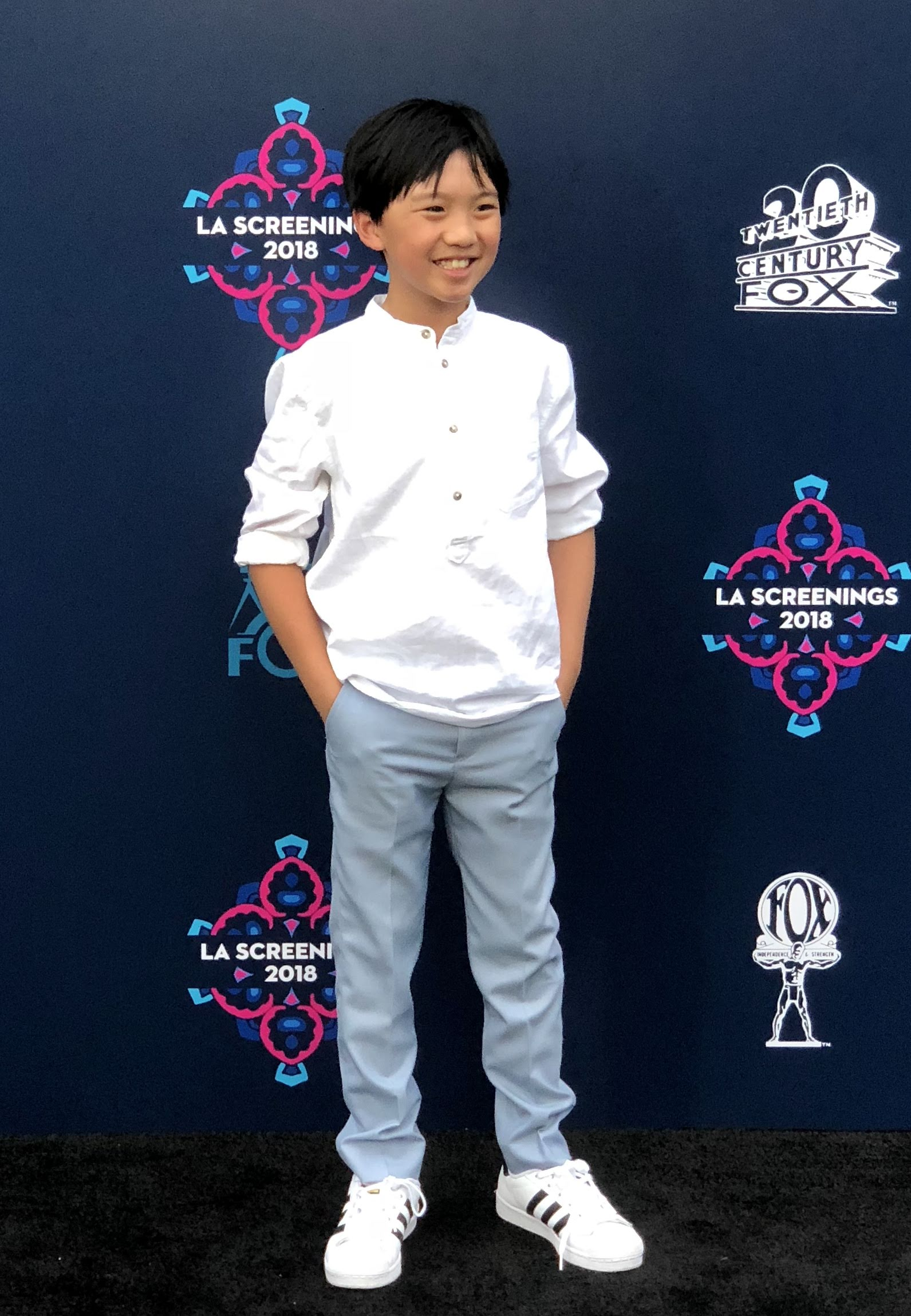 Ian Chen at Fox Los Angeles Screening 2018